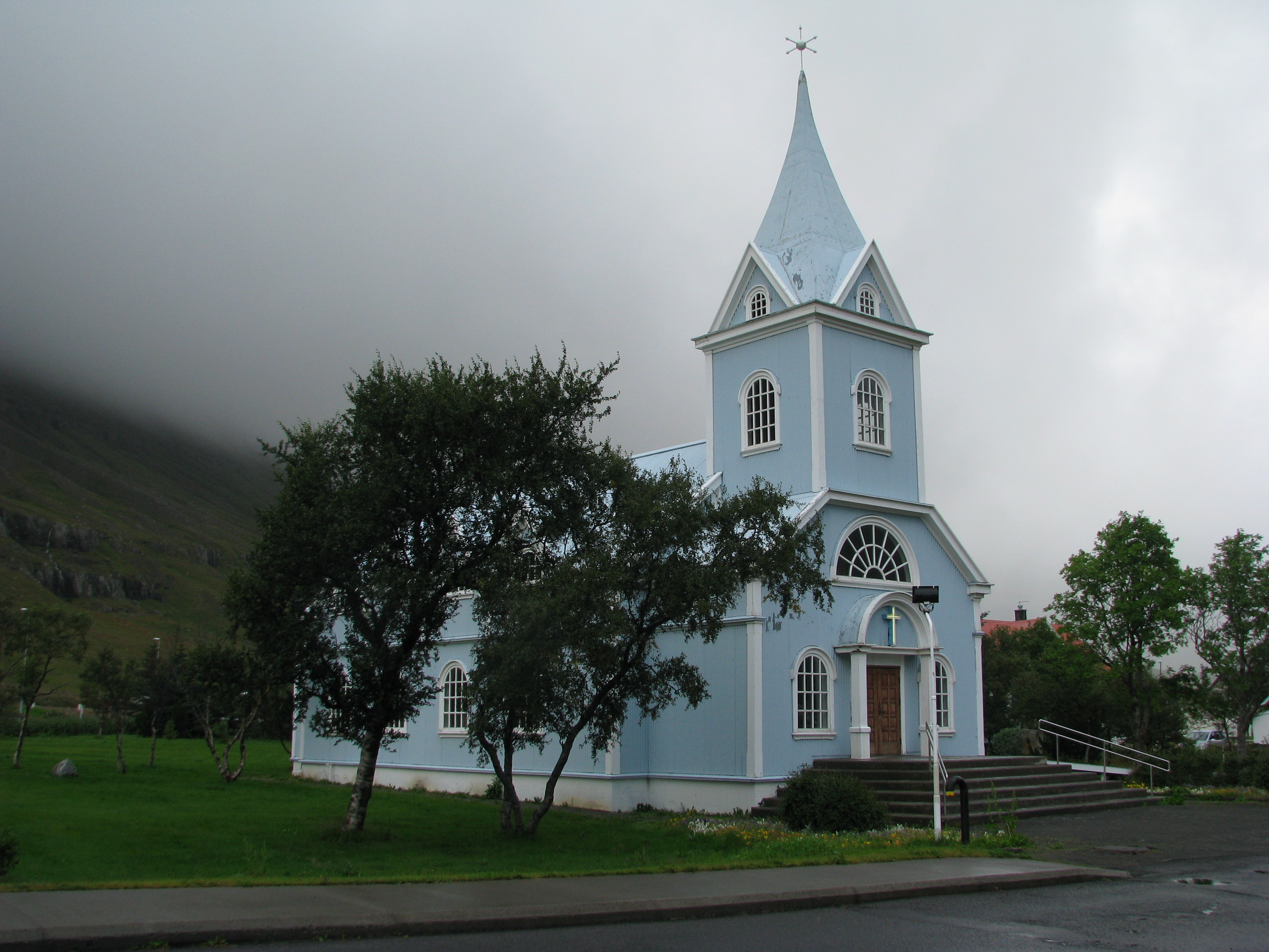 Seydisfjardarkirkja, a church in Seydisfjordur, East Iceland.